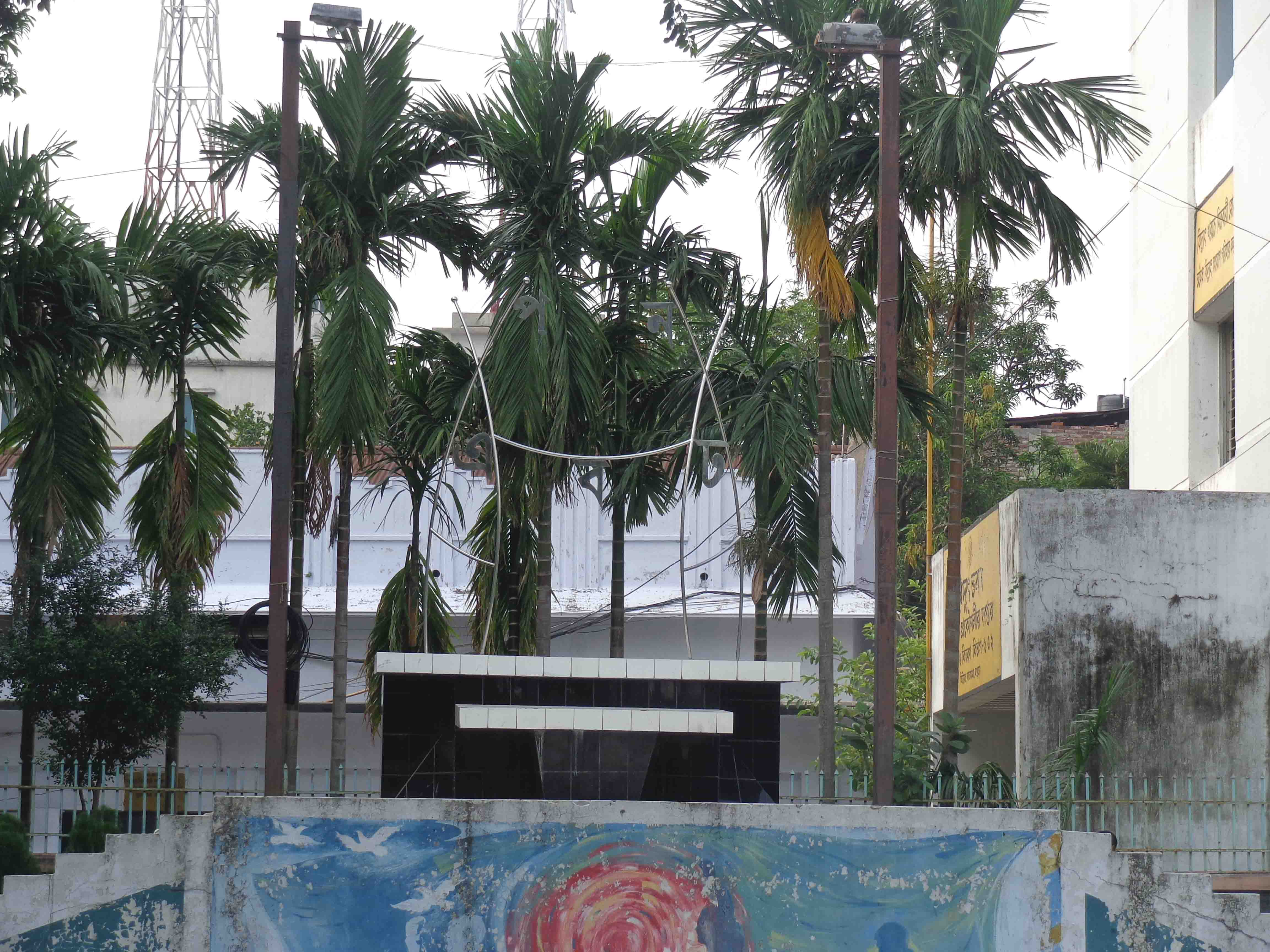 বগুড়া পৌর খোকন পার্কের অভ্যন্তরে বগুড়ার শহীদ মিনার